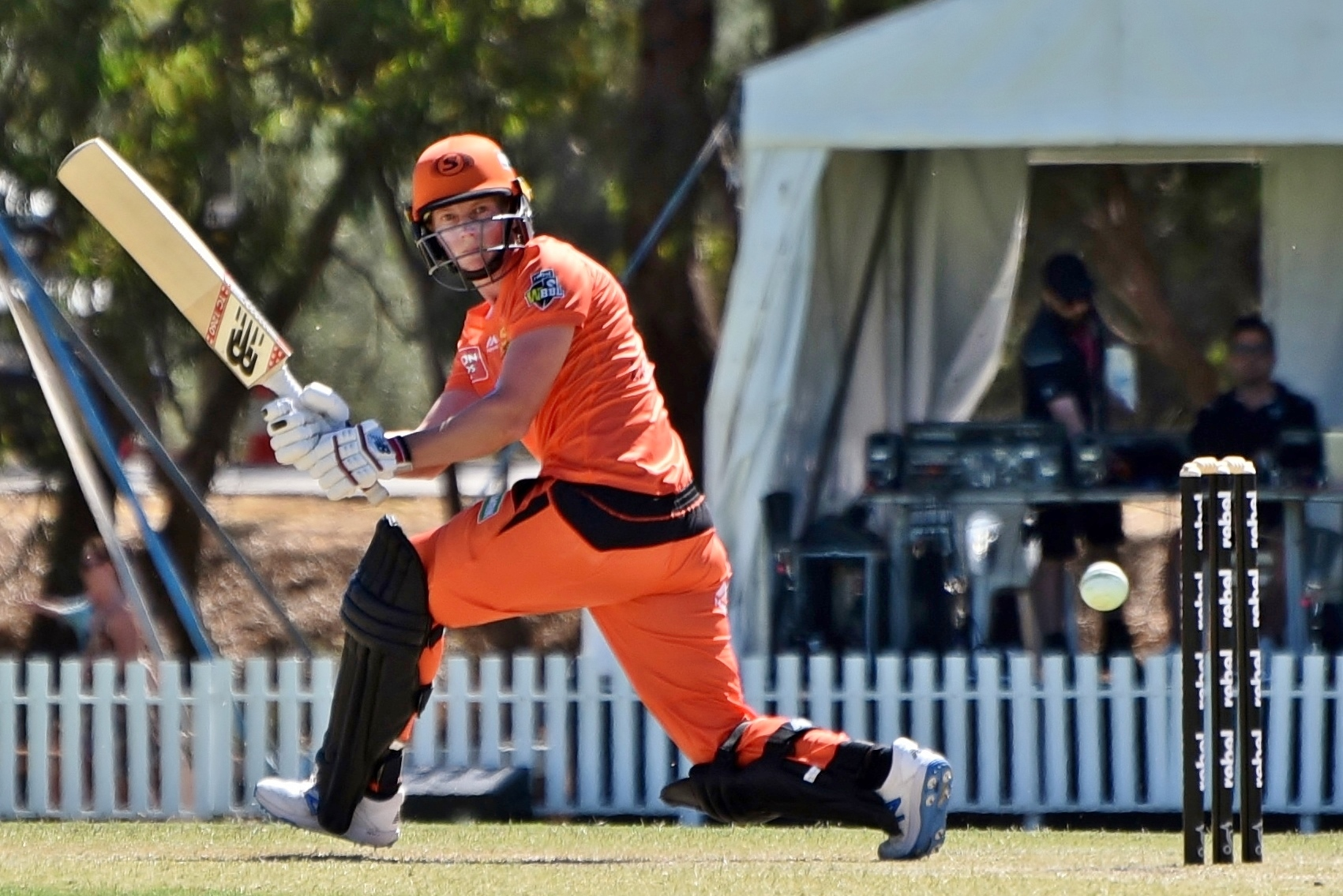 Perth Scorchers captain Meg Lanning during her Player of the Match-winning maiden WBBL century against the Hobart Hurricanes, in a WBBL match at Lilac Hill Park in Perth